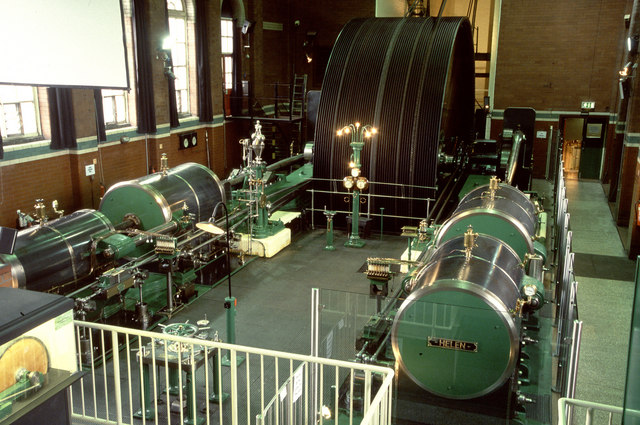 Trencherfield mill engine, near to Ince-in-Makerfield, Wigan, Great Britain. The 1907 built J & E Wood, Bolton horizontal four cylinder triple expansion engine of 2100 horsepower. This is following its �600,000 overhaul and conversion from red to green colour scheme.